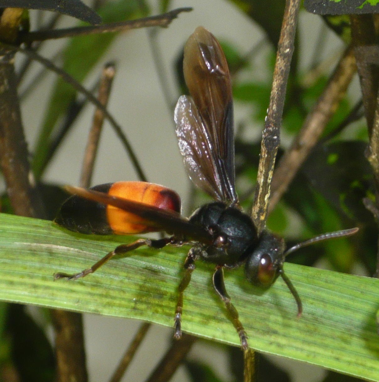 Vespa affinis, Thailand